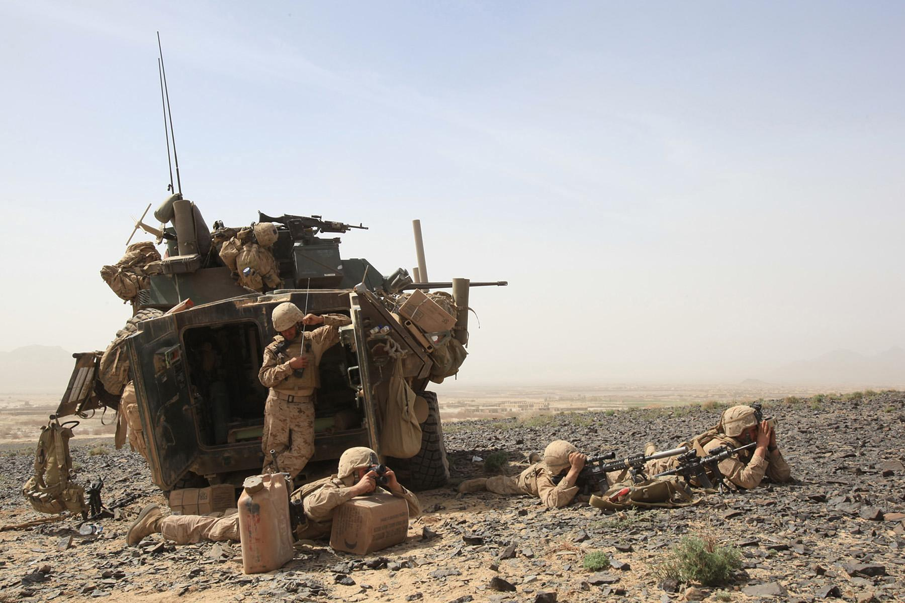 Marines with C Company, 3rd Light Armored Reconnaissance Battalion, scan the hills of the Bahram Chah valley for an insurgent mortar spotter during Operation Rawhide II in Helmand province, Afghanistan, March 16. Throughout the four-day raid on the key insurgent trafficking hub on the Pakistan border, insurgent spotters attempted to creep over the hill line to call in fire on Marine positions. Regional Command Southwest Photo by Sgt. Jeremy Ross Date Taken:03.16.2011 Location:HELMAND PROVINCE, AF Related Photos